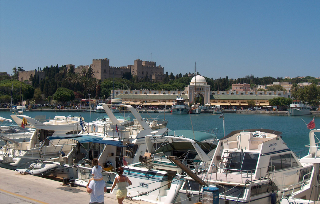 Photo of Agora and the Palace of Rhodes, Greece